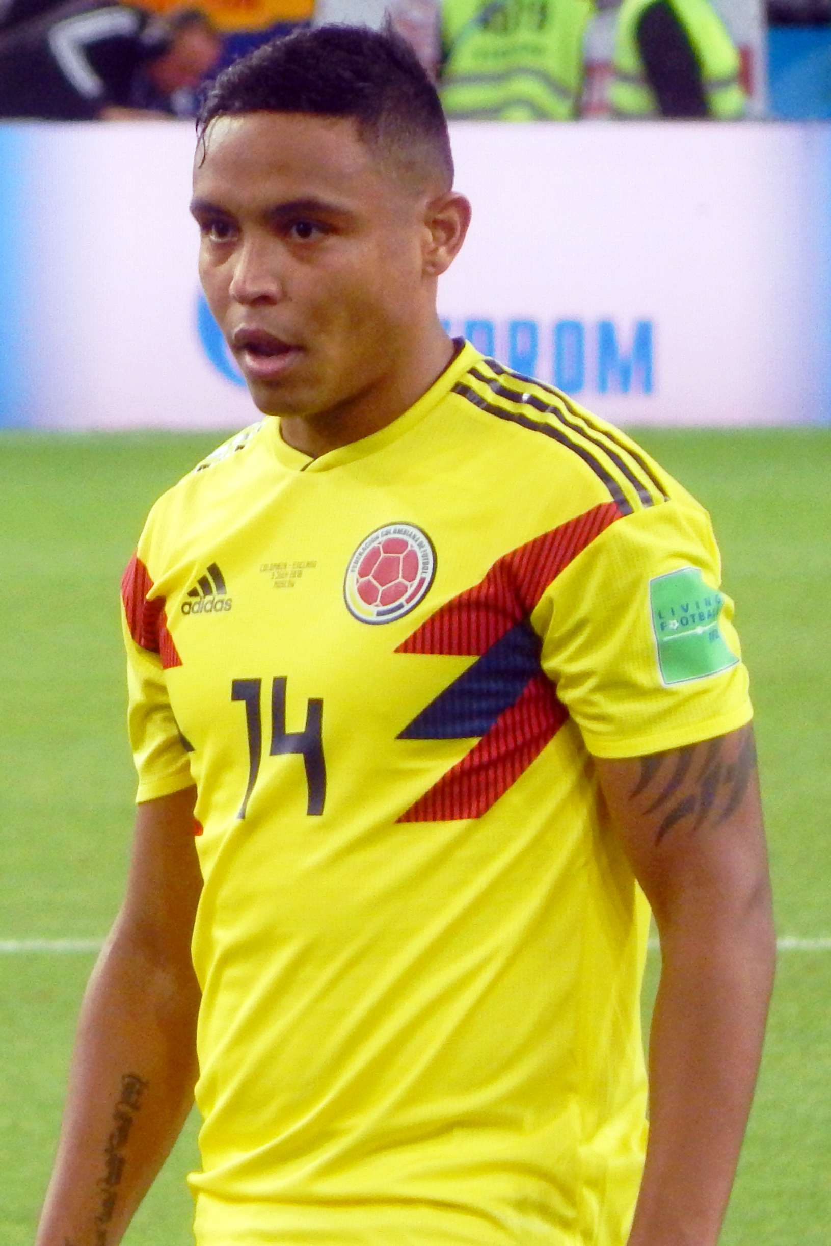 FIFA World Cup 2018, Round of 16, Colombia vs. England. Luis Muriel before his penalty kick during the shoot-out